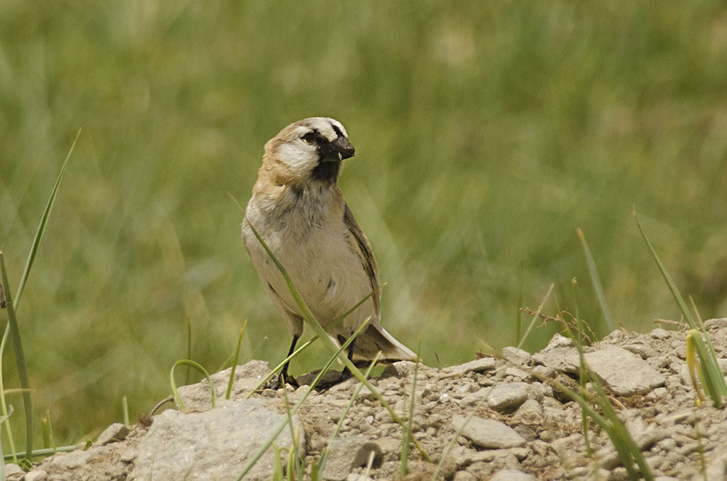 Blanford's Snowfinch at Startsapuk Tso, near Tsokar, Ladakh, India